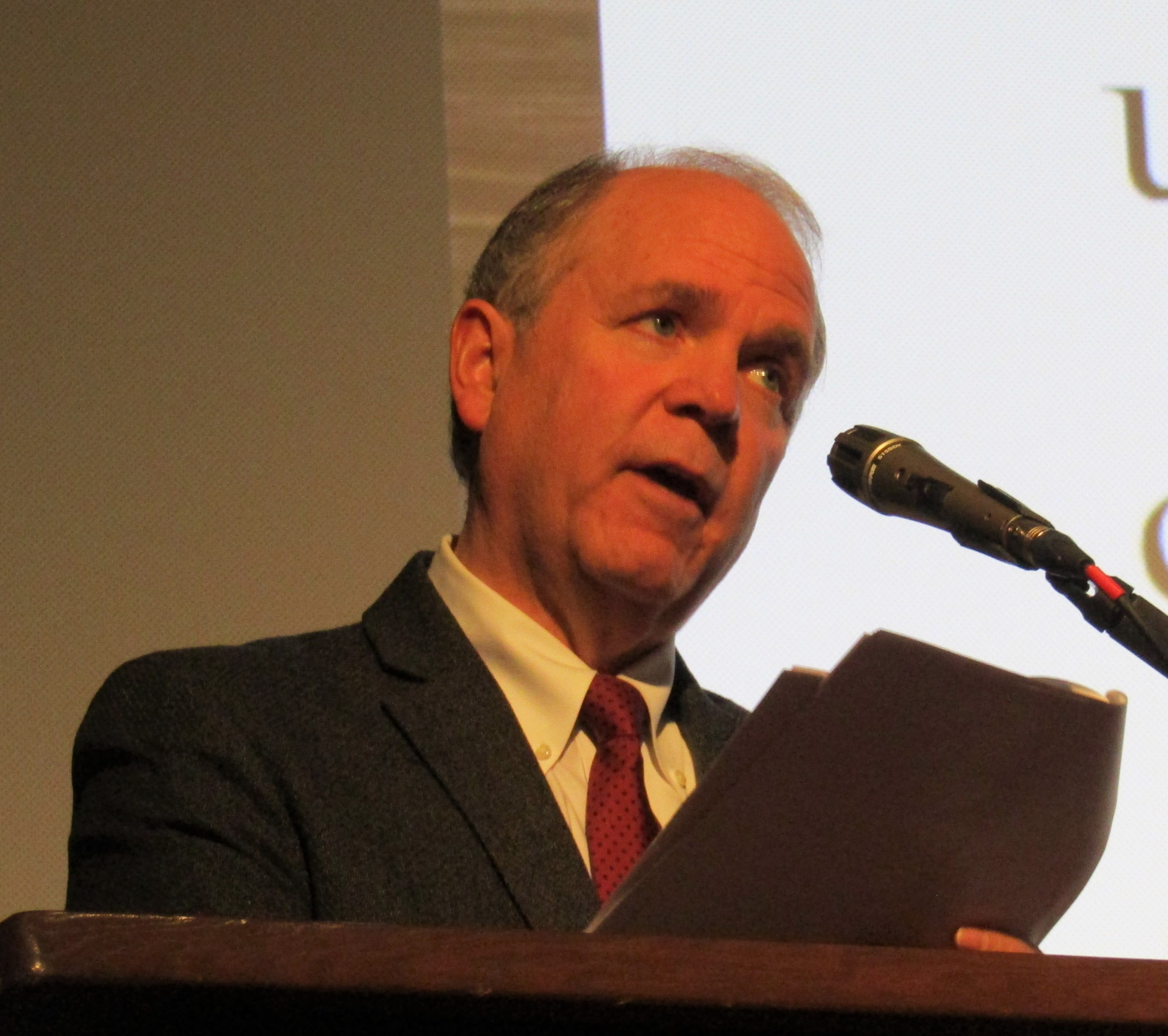 Daniel K. Judd speaking at the Wheatley Institute's Reason for Hope conference.